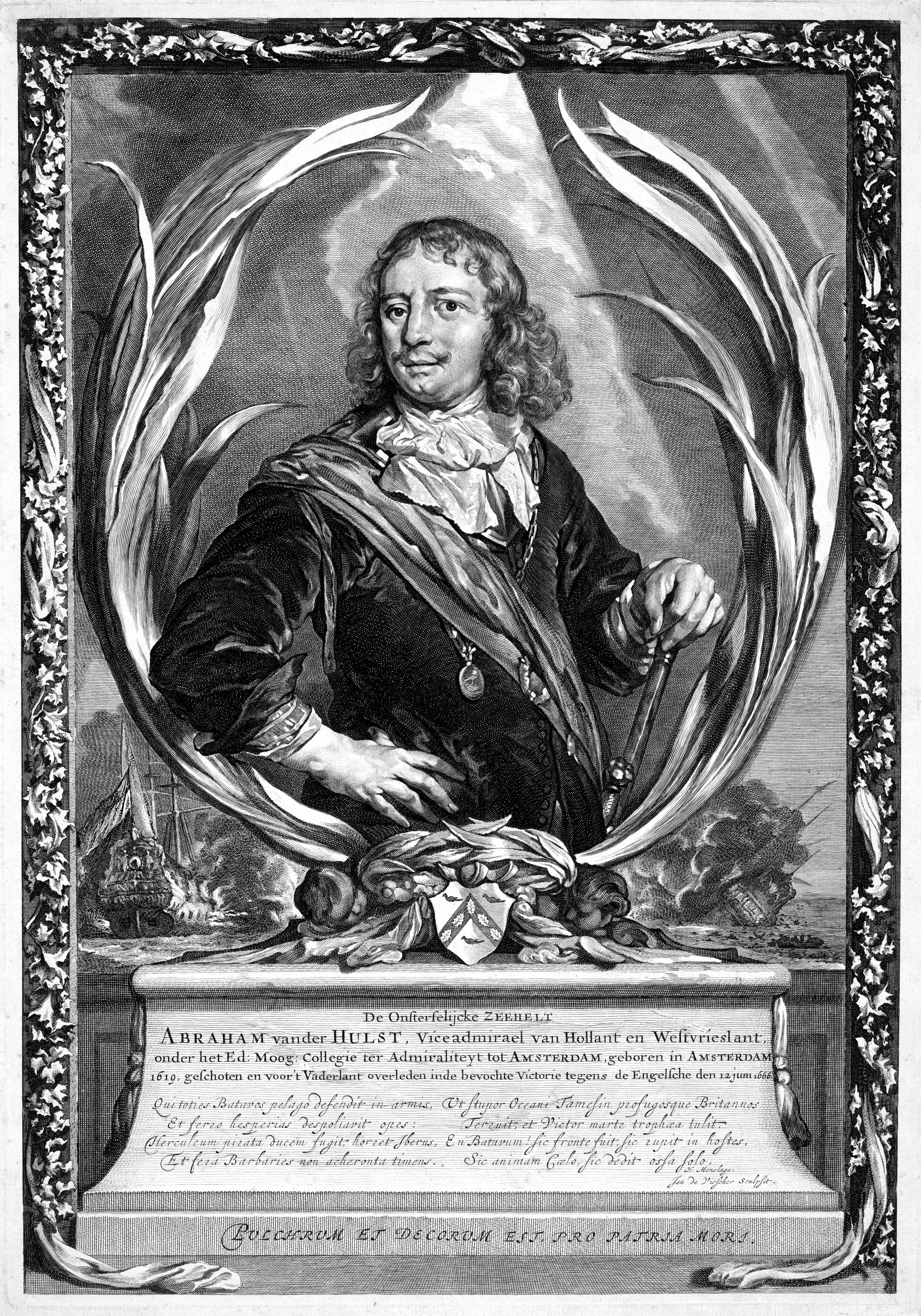 Abraham van der Hulst (1619-1666) engraving